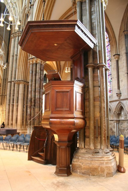 St.Mary's pulpit in Lincoln Cathedral. Formerly in the English church in Rotterdam, the pulpit dates from 1708, the inscription reads .... This pulpit which once stood in the church of S.Mary, Rotterdam (erectd by the help of Queen Anne and the Duke of Marlborough for the use of the English there resident, but since demolished) was presented to this cathedral by A.C.Benson, Master of Magdalene College Cambridge in memory of his father Edward White Benson D.D. Chancellor of Lincoln 1872 to 1877 Bishop of Truro 1877 to 1882 Archbishop of Canterbury 1882 to 1896